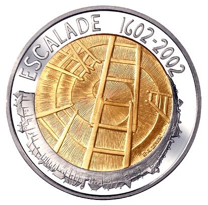 Swiss Commemorative Coin 2002 CHF 5 obverse